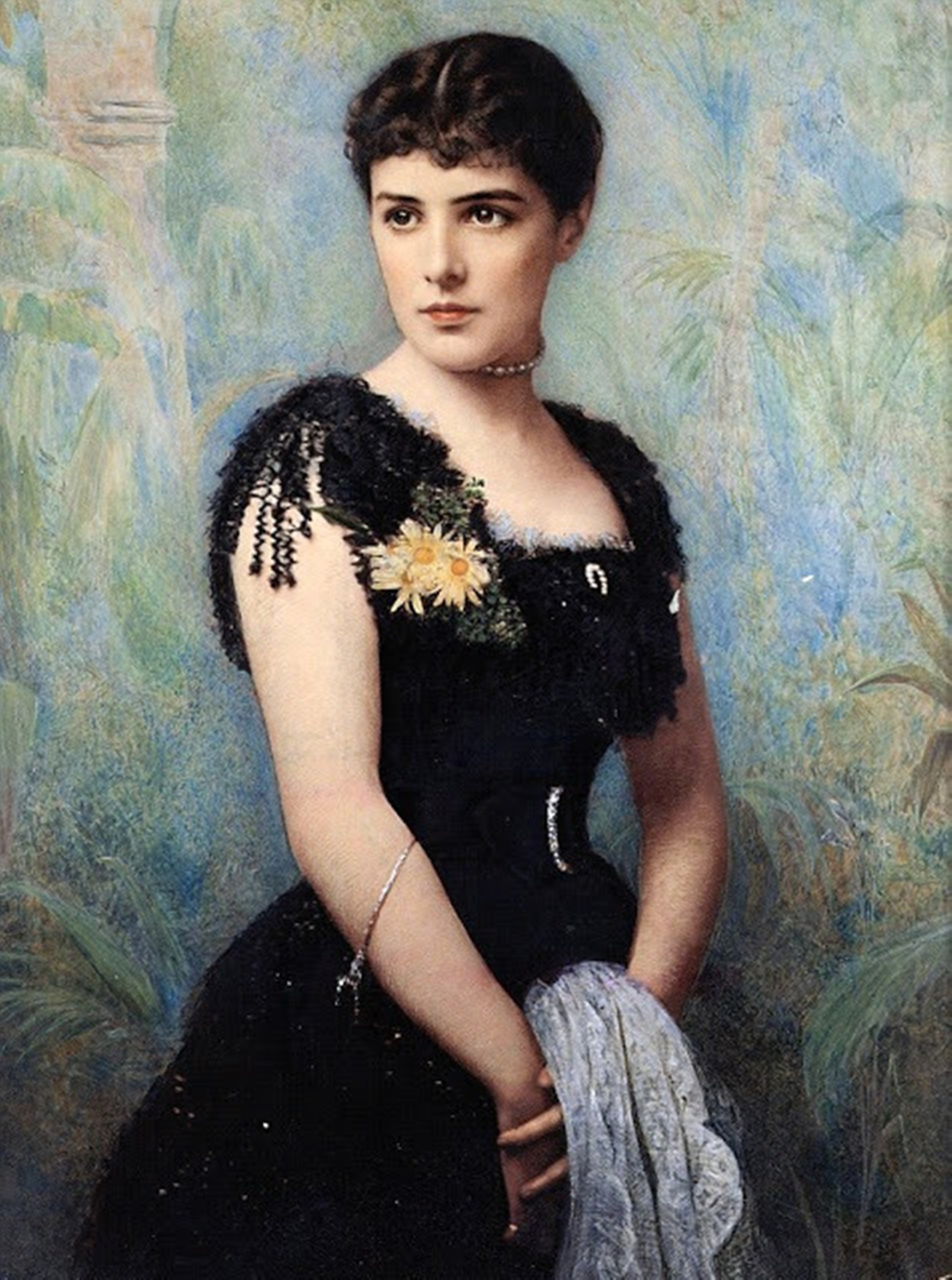 Jennie Churchill, née Jeanette Jerome, formally Lady Randolph Churchill (born 9 January 1854, Brooklyn, New York, United States of America and died 29 June 1921, London, England), American society figure, is the wife of Lord Randolph Churchill and the mother of British Prime Minister Sir Winston Churchill. Jennie Jerome married 15 April 1874 at the Embassy of Great Britain and Ireland rue du Faubourg Saint-Honoré in Paris in the 8th arrondissement, with Lord Randolph Churchill (1849-1895), third son of John Spencer-Churchill, 7th Duke of Marlborough.